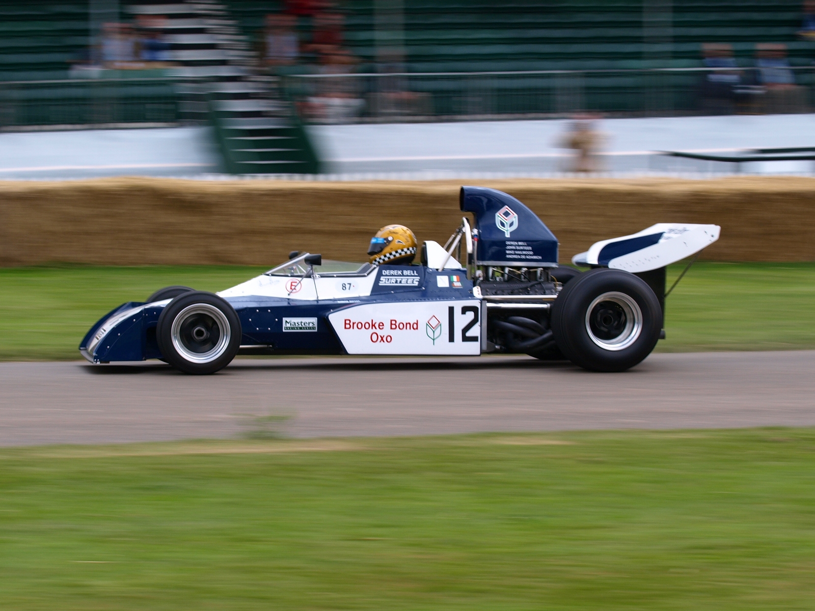 A Surtees TS9B being demonstrated at the 2008 Goodwood Festival of Speed.